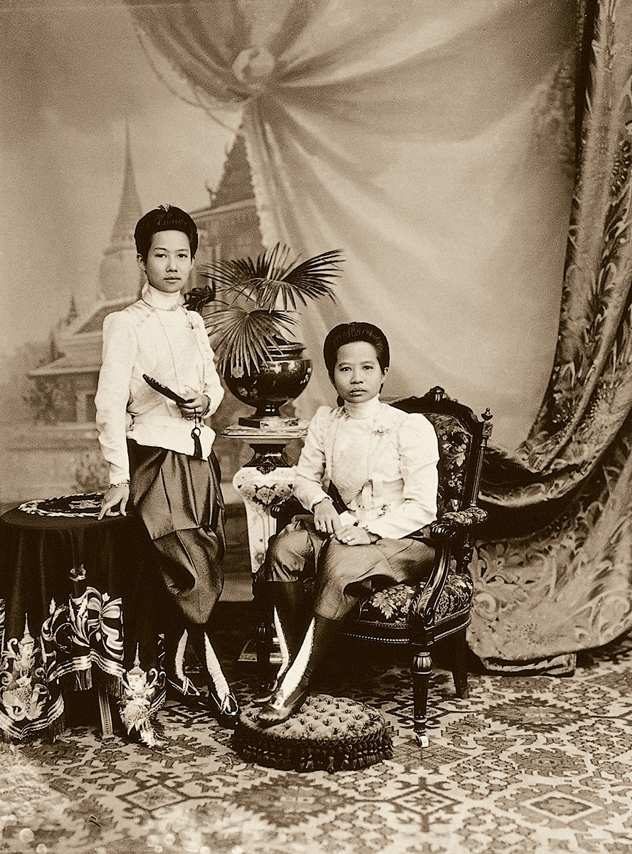 Princess Suddha Dibyaratana and Queen Sukhumala Marasri.